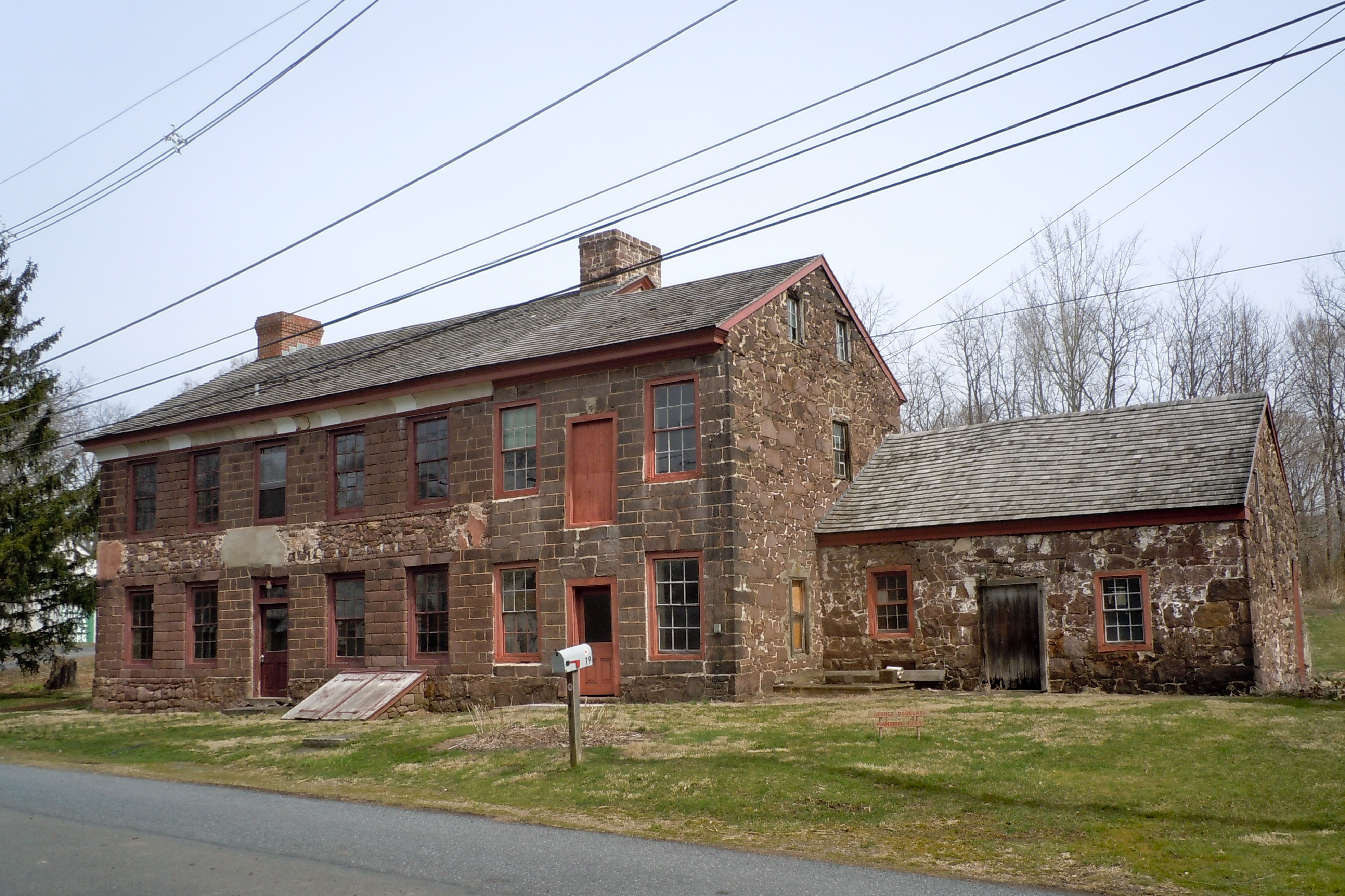 George Douglass House on the NRHP since June 25, 2009. At 19 Old Philadelphia Pike, Douglassville, Amity Township, Berks County, Pennsylvania. Very near (less than 100 yards) White Horse Tavern, and Old Swede's which are both also on the NRHP. Fairly near (about 400 yards) Old Gabriel Church also on the NRHP.